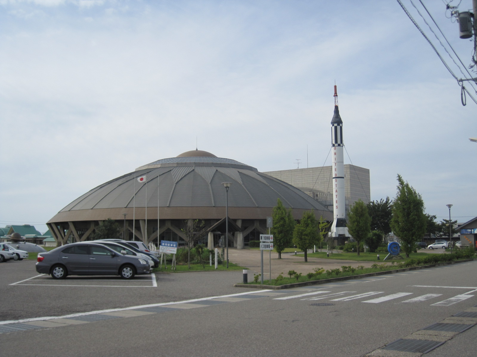 Cosmo Isle Hakui (Hakui city, Ishikawa prefecture)